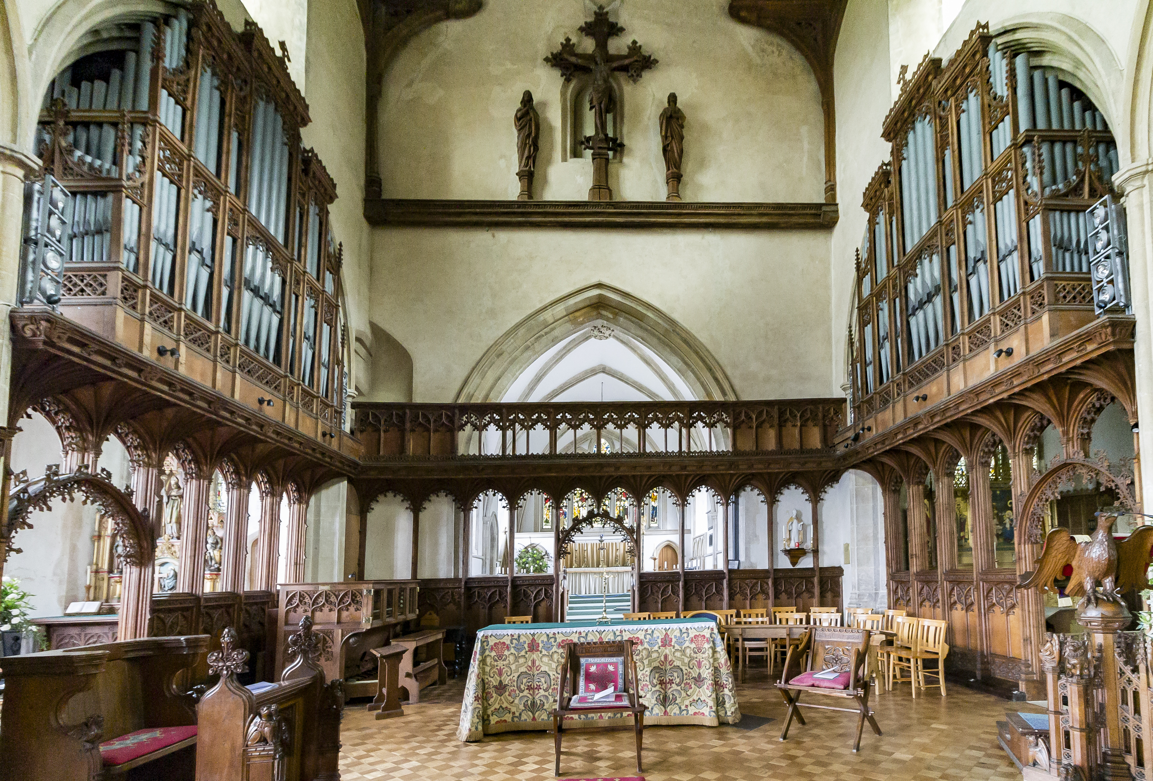 The organ is split into north and south divisions. Two manual & Pedals by Norman & Beard from 1913. Rebuilt in 1983. There are 16 stops.